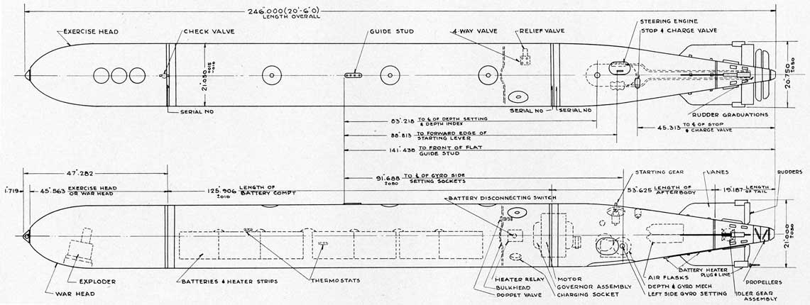 Mark 18 torpedo general profile, as published on the US Navy Torpedo Mark 18 (Electric) basic service manual, published April 1943